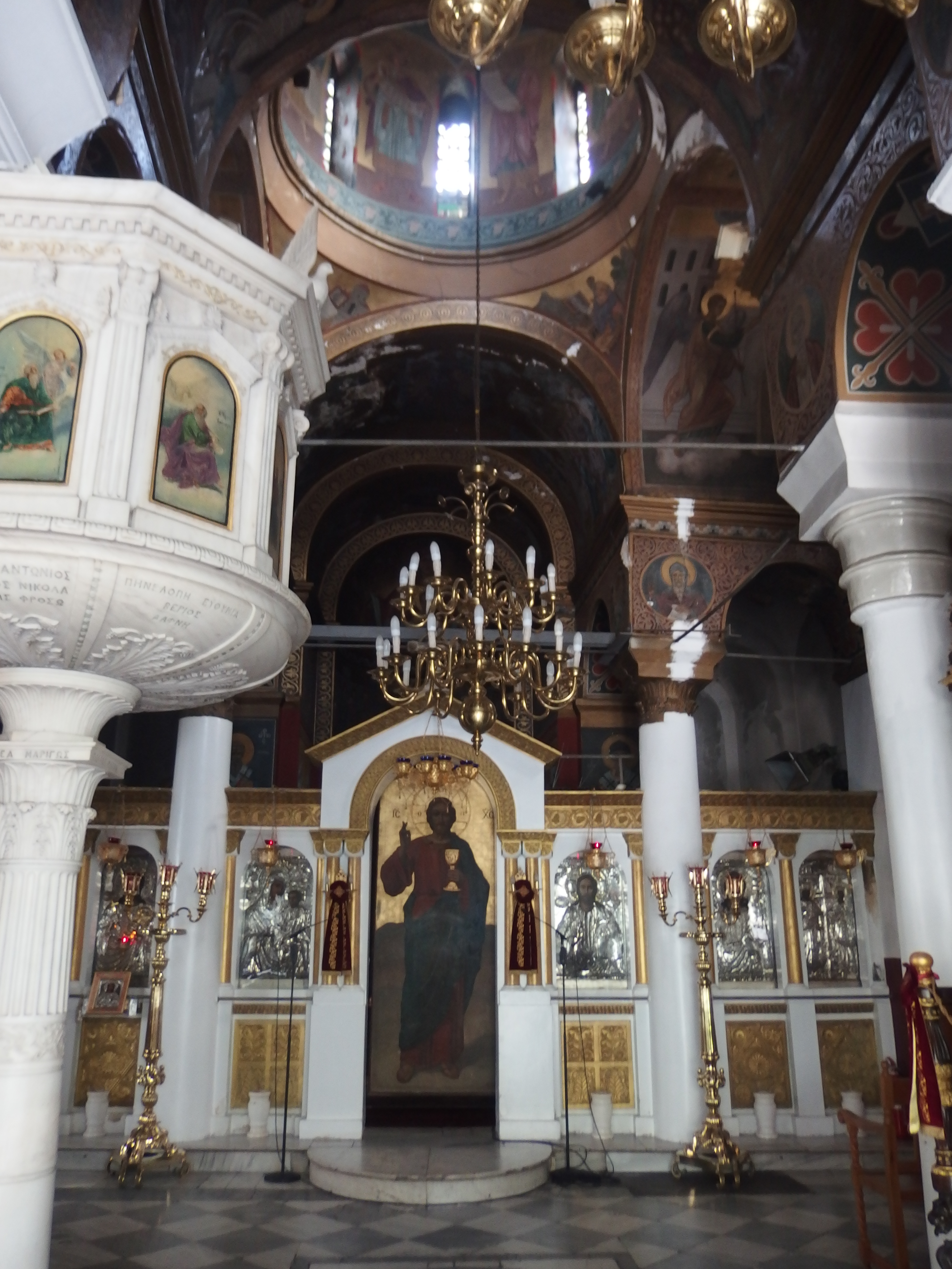 Athens, Church of Saint Catherine.